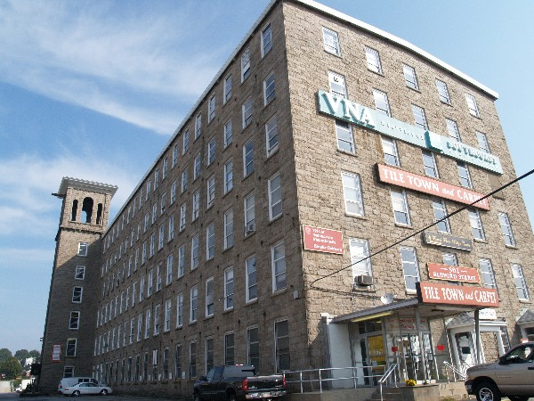 Chace Mills, Fall River, Massachusetts